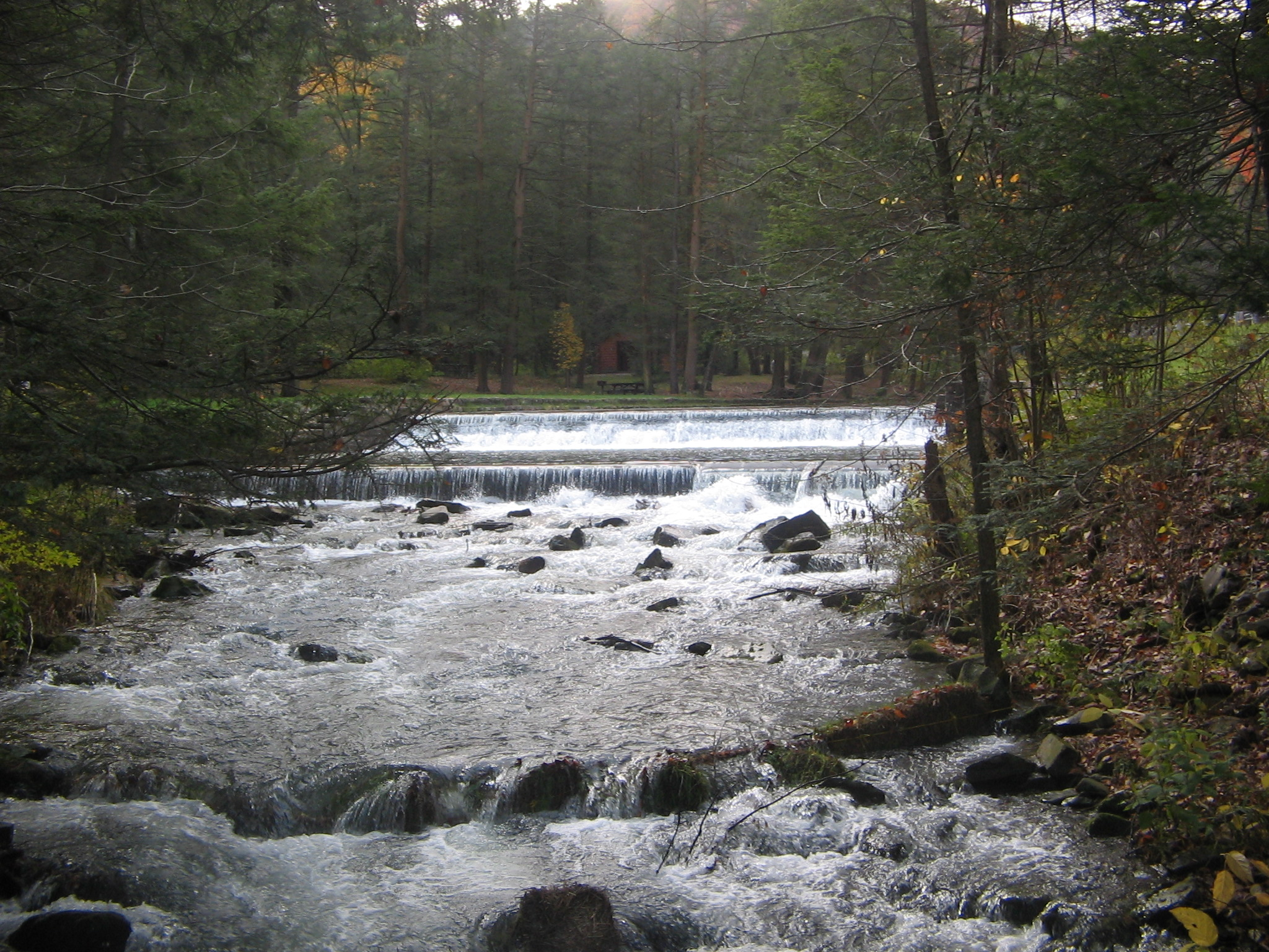 Rauchtown Run in Ravensburg State Park, Clinton County, Pennsylvania, USA (within the Tiadaghton State Forest).